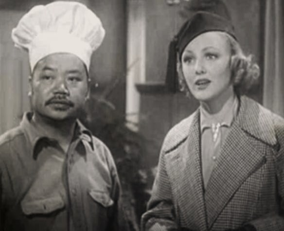 Willie Fung and Virginia Grey in Secret Valley (1937) - cropped screenshot